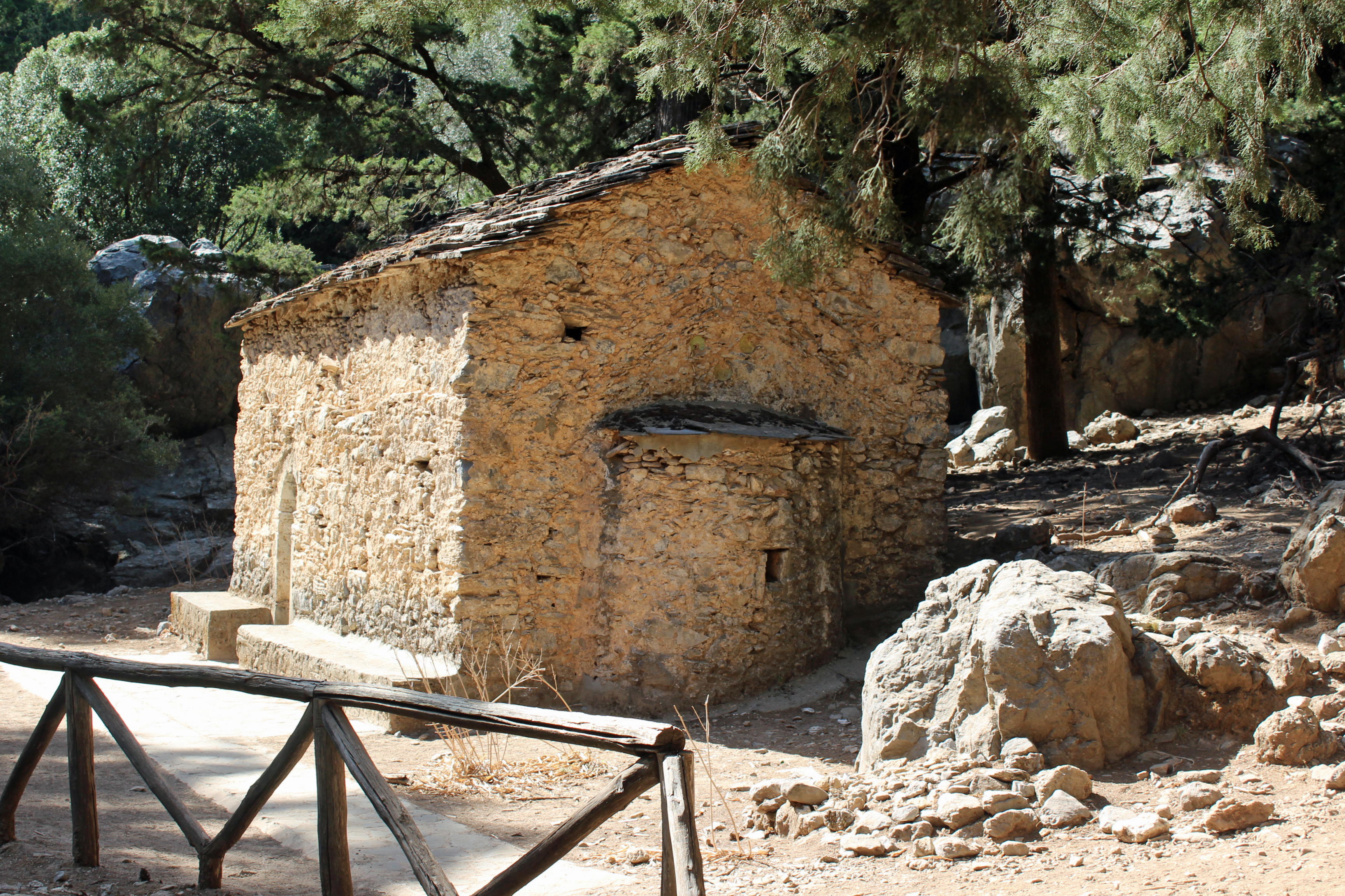 Church “Ágia Nikólaos”, in the Samaria Gorge, Crete, Greece